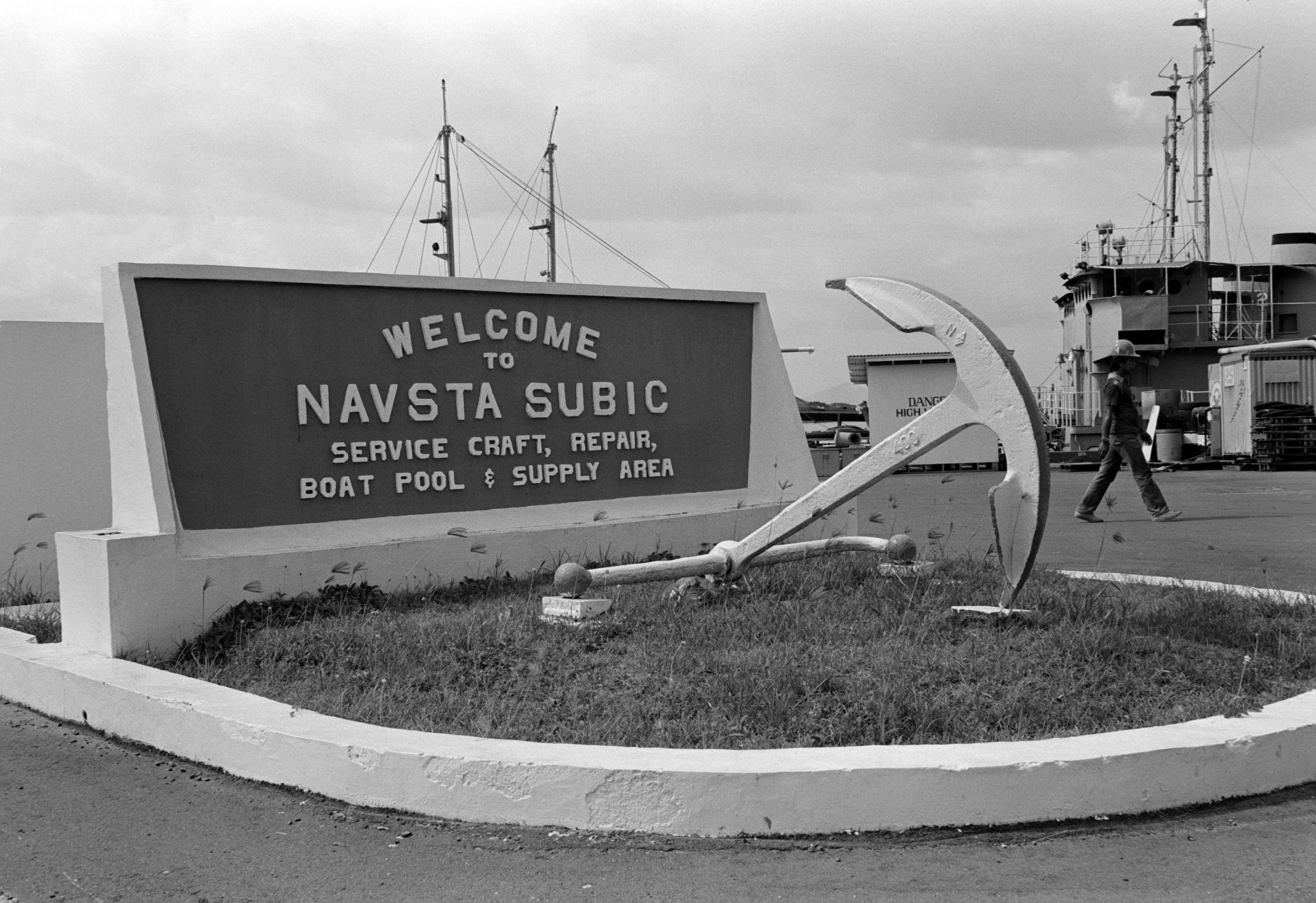 Welcome sign at the entrance to the base.Location: NAVAL STATION, SUBIC BAY, LUZON PHILIPPINES (PHL)